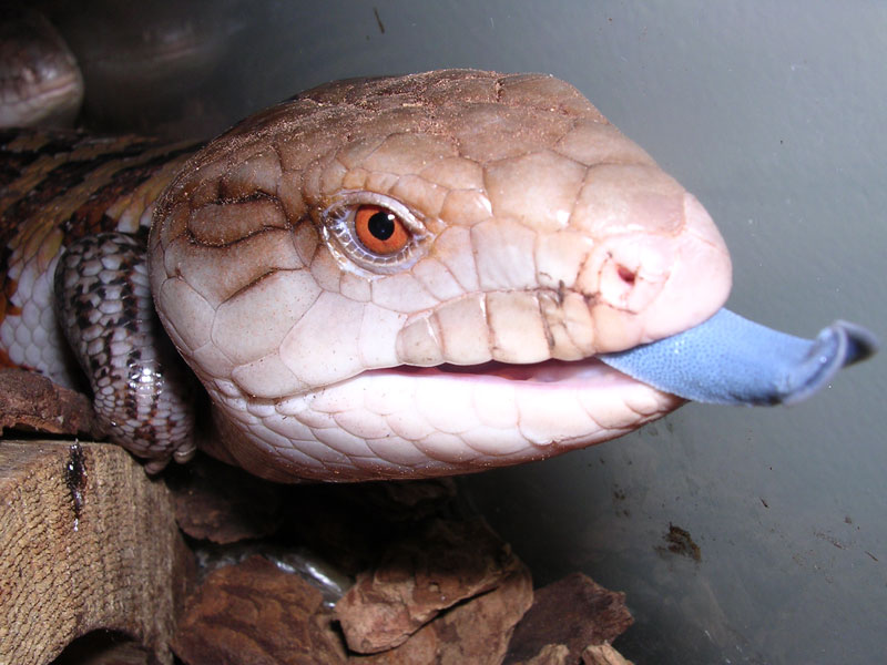 Blue-tongued skink